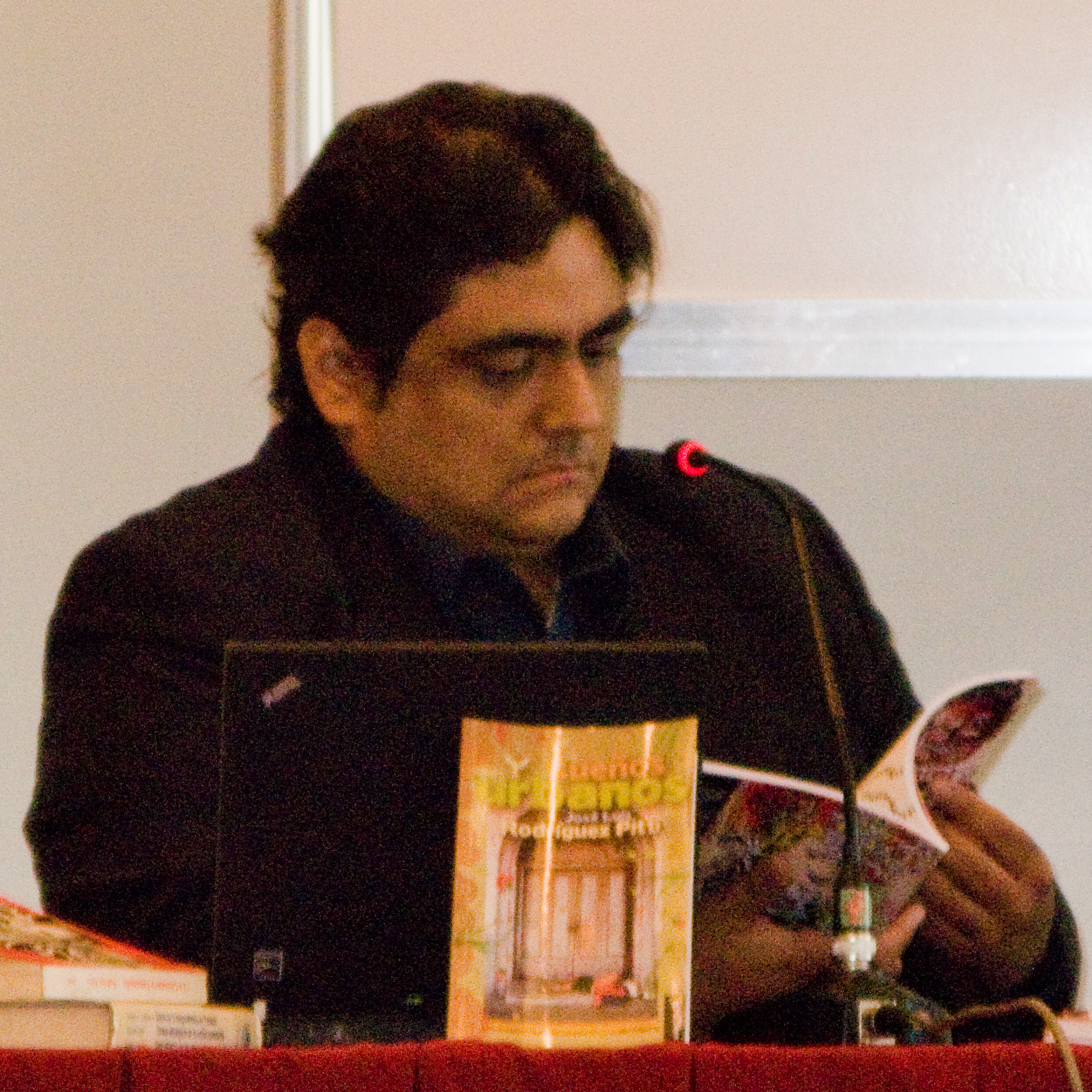 Poet, essayist and novelist José Luis Rodríguez Pittí at "Fería del Libro de Buenos Aires" (Buenos Aires, Argentina Book Fair).